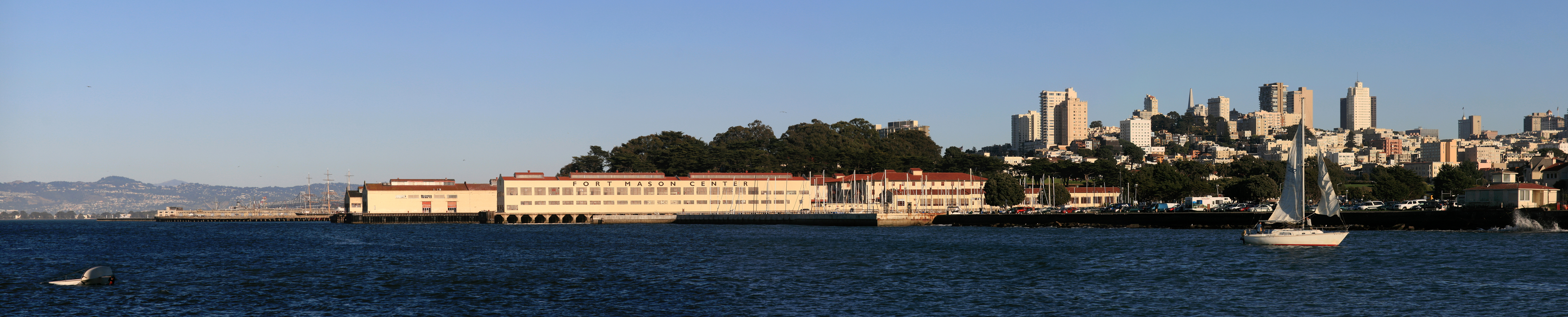 Fort Mason Center and Downtown San Francisco. Fort Mason, also known as San Francisco Port of Embarkation, US Army, in San Francisco, California is a former United States Army post located in the northern Marina District, alongside San Francisco Bay. Fort Mason served as an Army post for more than 100 years, initially as a coastal defense site. During World War II, it handled most of the cargo for the Pacific campaign. Fort Mason can be split into two distinct areas. This image is of the Fort Mason Center